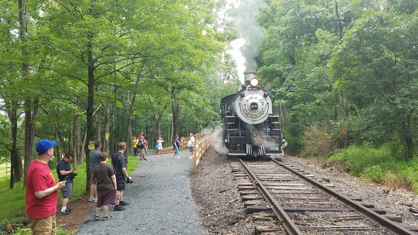 Black River 60 at Woodsedge Station.